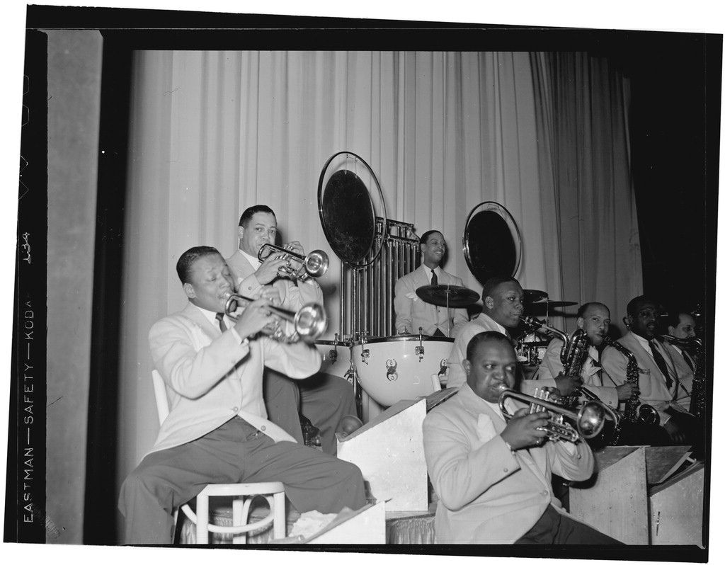 Barney Bigard, Ben Webster, Otto Hardwick, Harry carney, Rex Stewart, Sonny greer, Wallace Jones, Ray Nance. Photography by William P. Gottlieb (between 1938 and 1948)